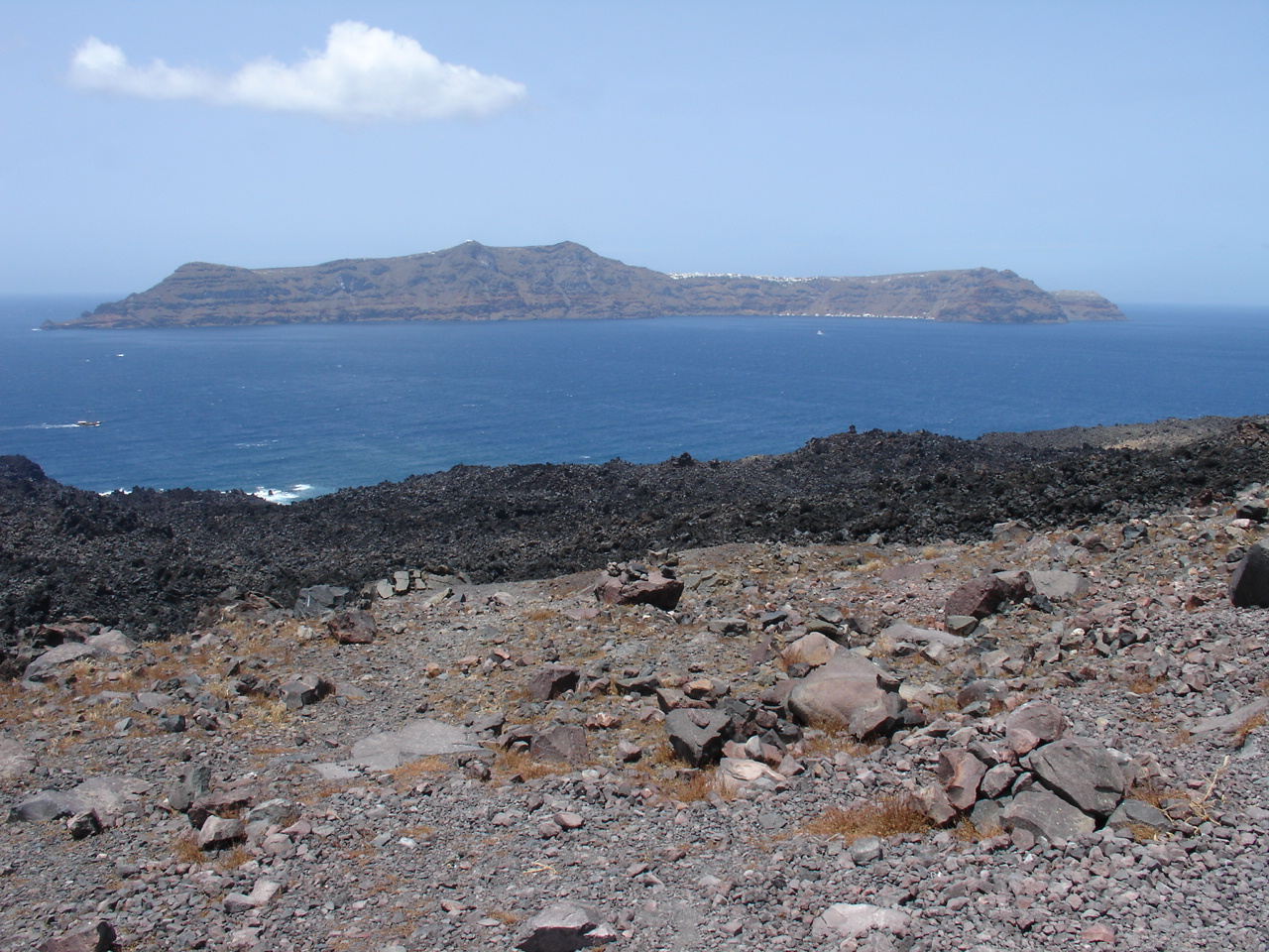 View on Thirasia (as seen from Nea Kameni), Santorini, Greece.